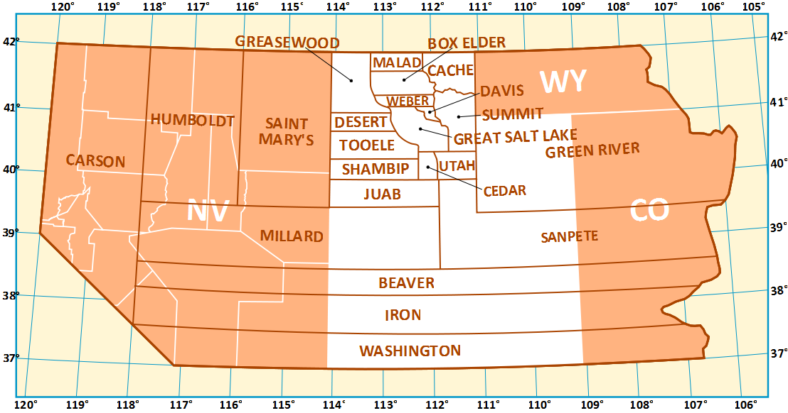 Map of Utah Territory 1856 counties named in orange. Present-day Nevada counties are outlined in white. The modern Wyoming-Colorado border is a white line. Modern Utah has a white background.